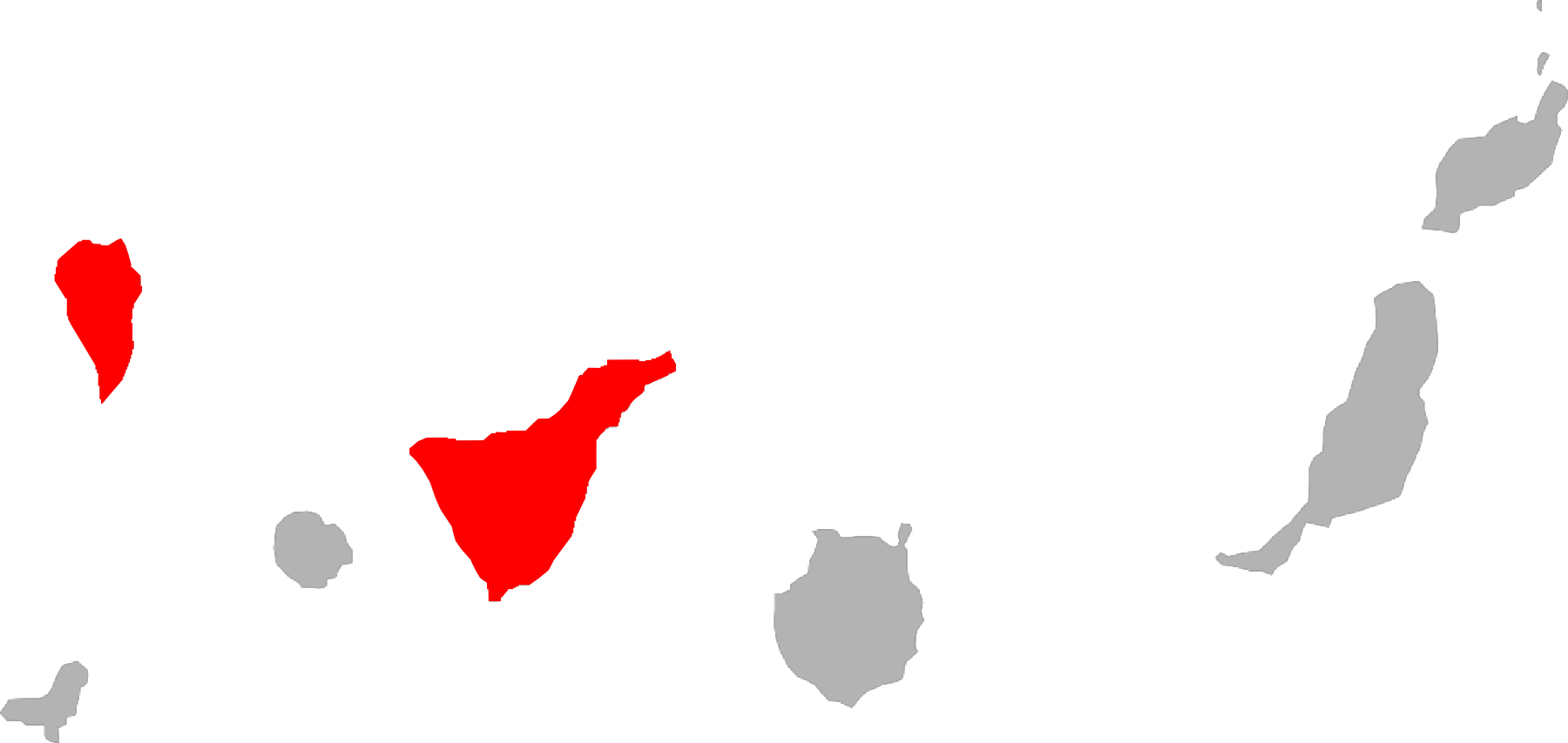 Tarentola dalalandii distribution map.